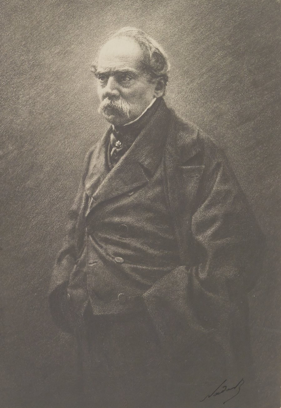 Photography of Constantin Guys by Félix Nadar